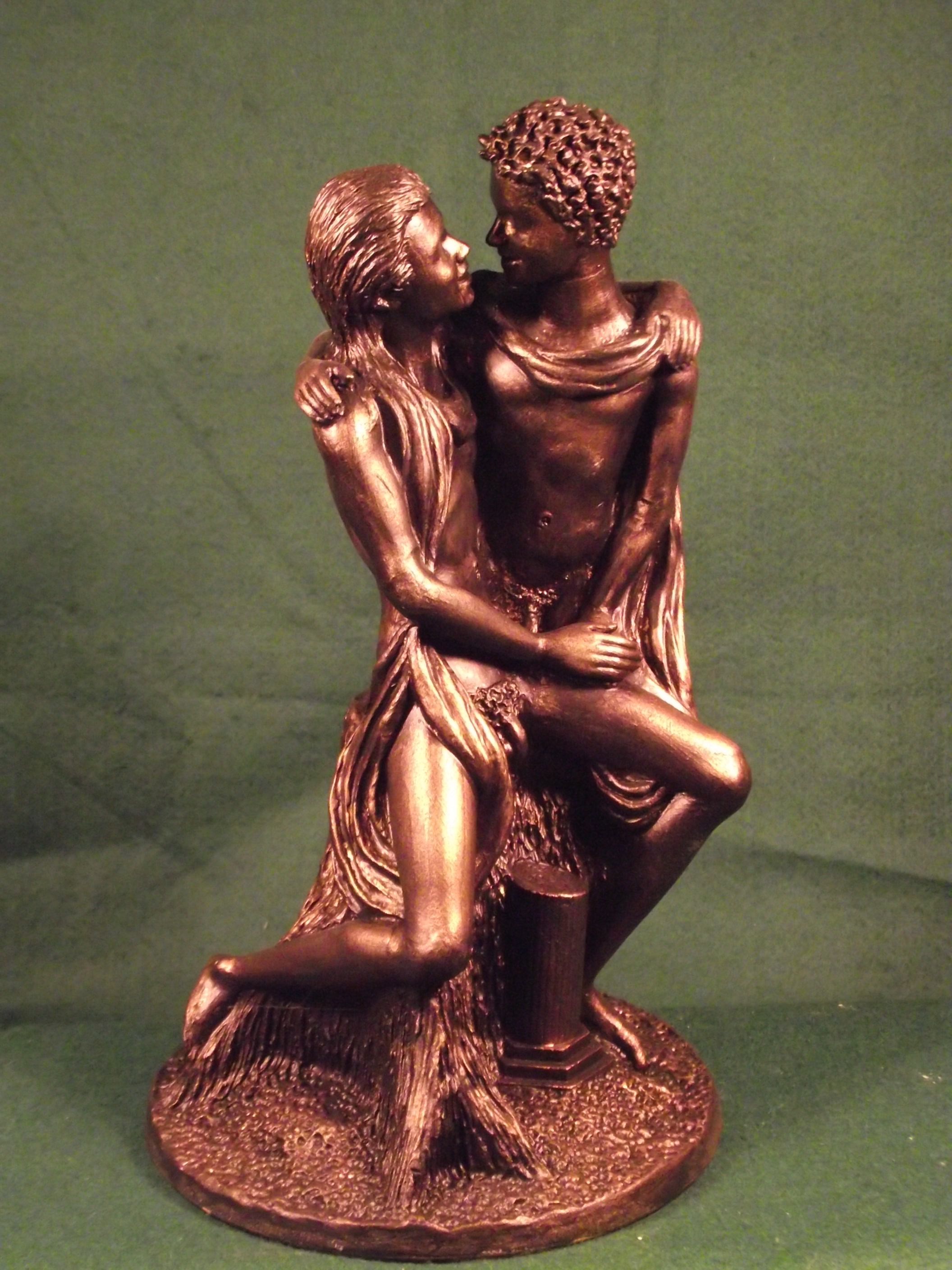 Dionysos and satyr Ampelos. Composite constructed sculpture of historical figure(s) reputed to have had a same sex relationships. Made of various materials & found objects with thin veneer film of bronze patina-ted paint giving appearance of solid bronze. A Metaphor of the appearance of solidity of LGBT rights & equality in law in the UK. Created by artist Malcolm Lidbury for 2016 LGBT History & Art Project Cornwall UK.